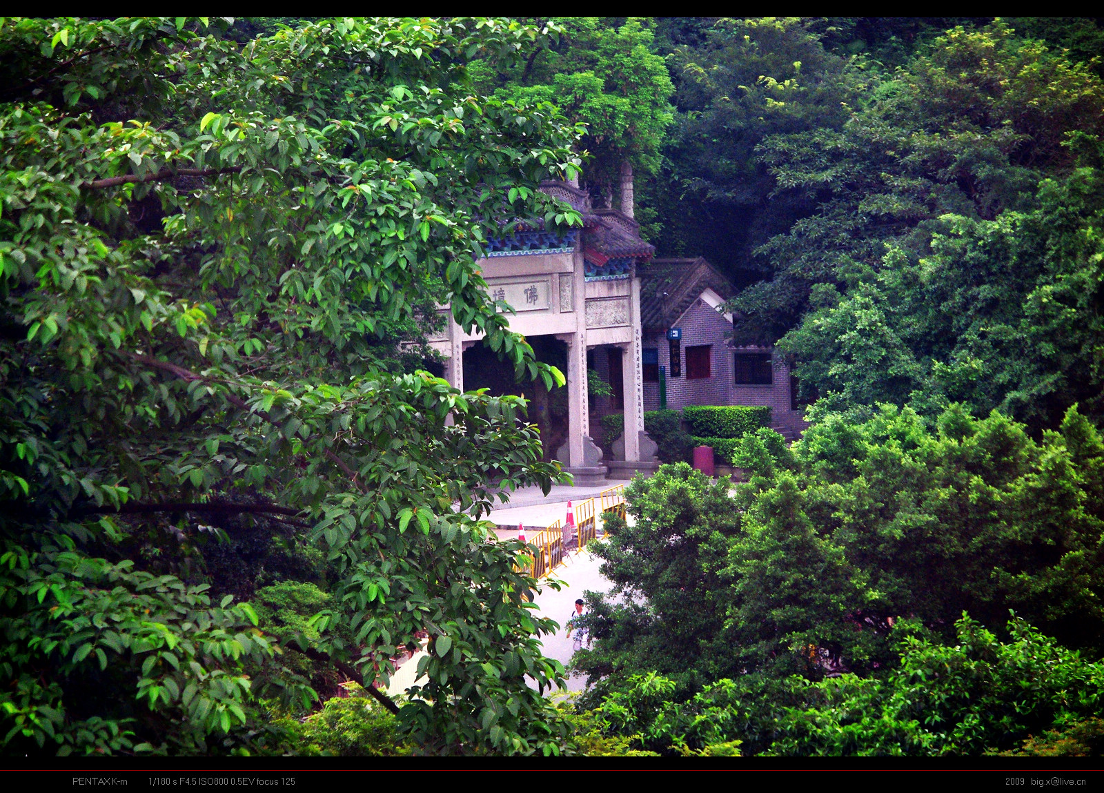 The ancient temple in the woods of Baiyun Mountain .